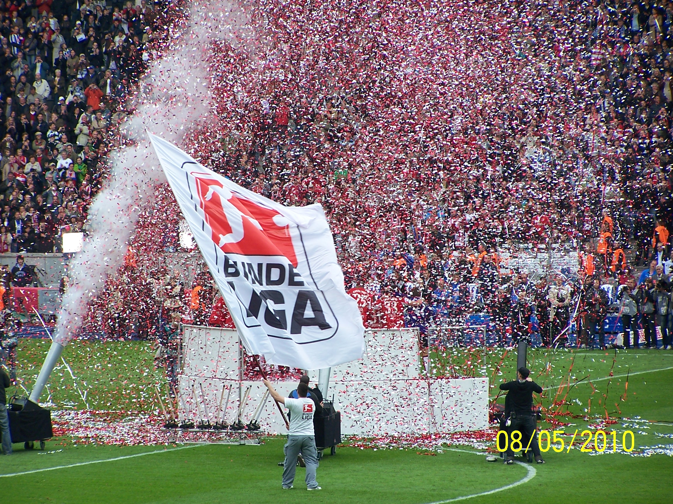 Honour of FC Bayern Munich 2010 in Berlin Olympic-Stadium Germany